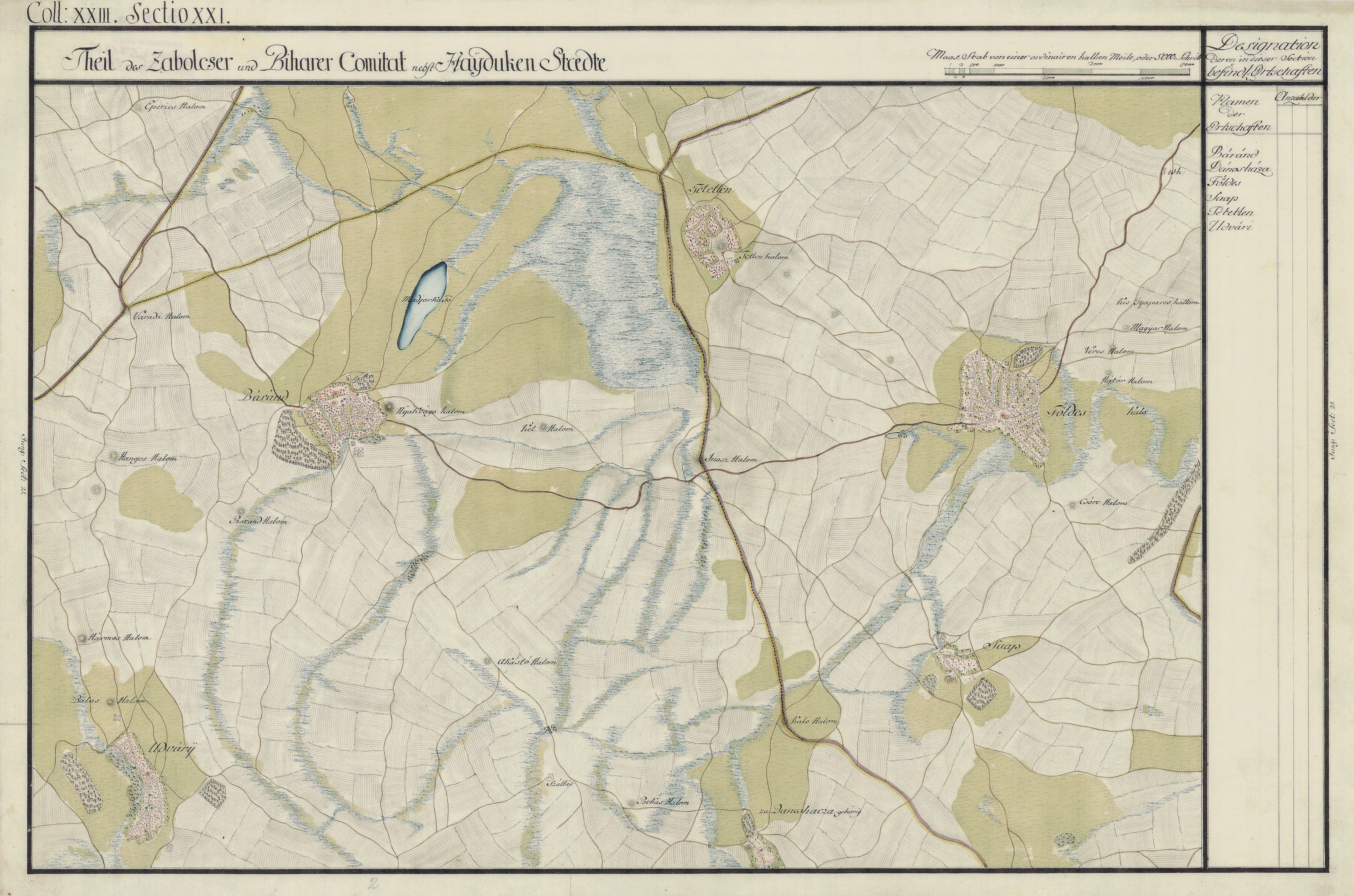 Kingdom of Hungary, 1782-85. Josephinische Landesaufnahme pg.23-21. Counties shown on the map: 1. Bihar County 2. Hyduken County 3. Szabolcs County